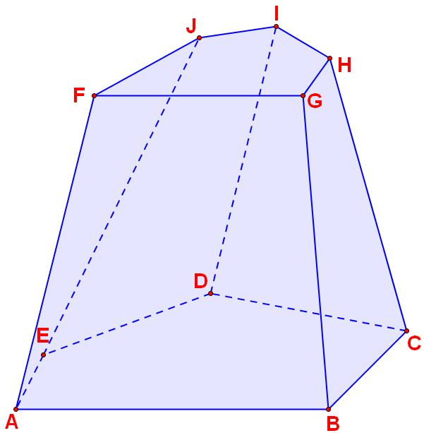 Polyhedron with highlighted vertices